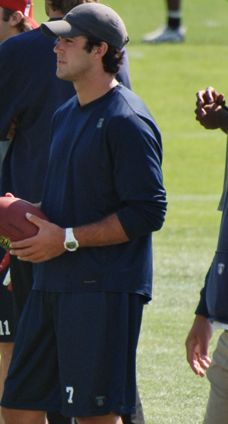 New England Patriots and former Oklahoma State quarterback Zac Robinson at 2010 training camp.